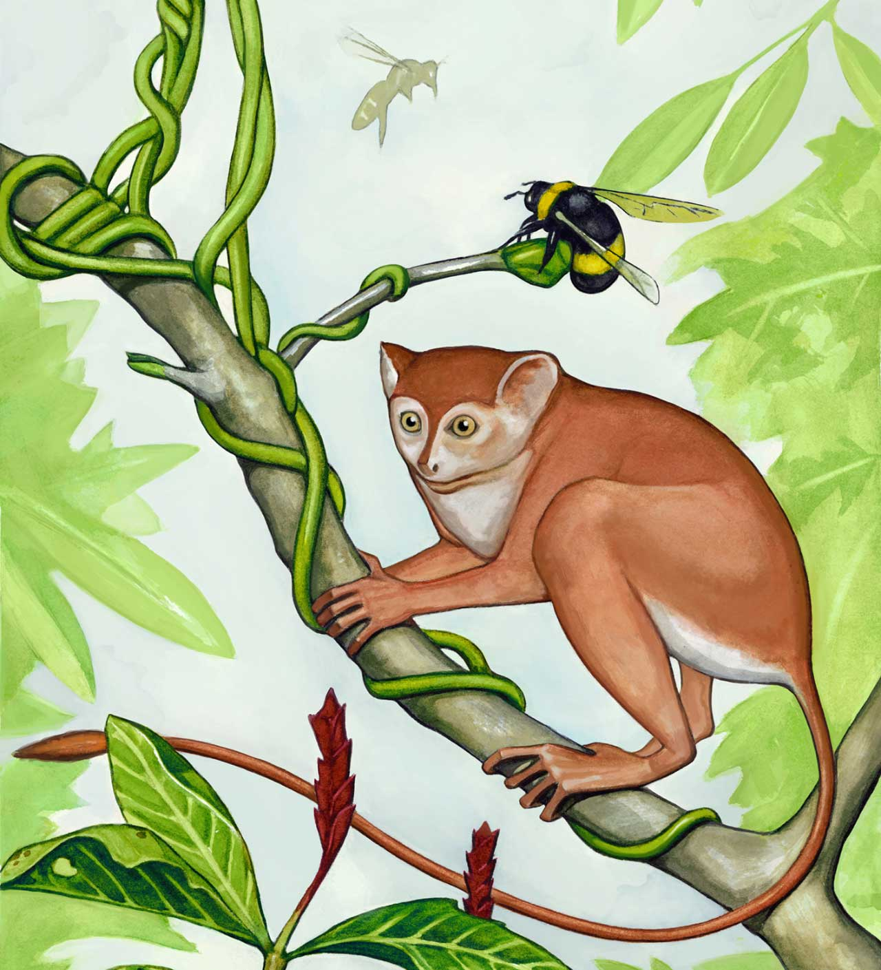 This is a watercolor illustration created by Mat Severson, which is based on a fossil of Archicebus achilles.